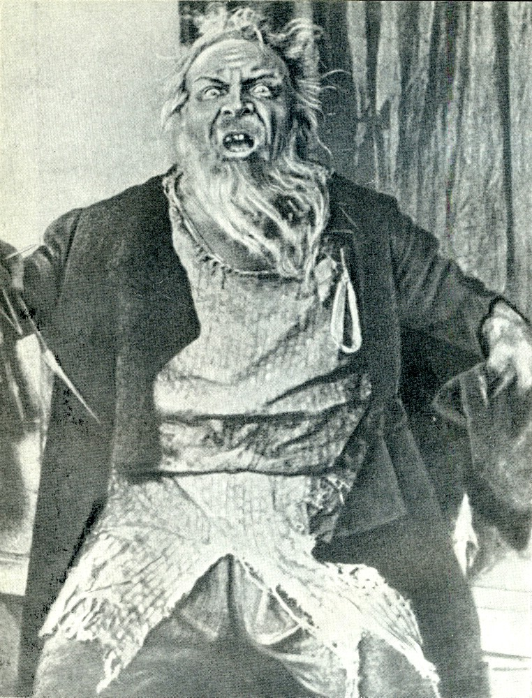 Russian bass, Feodor Chaliapin (1873 - 1938)